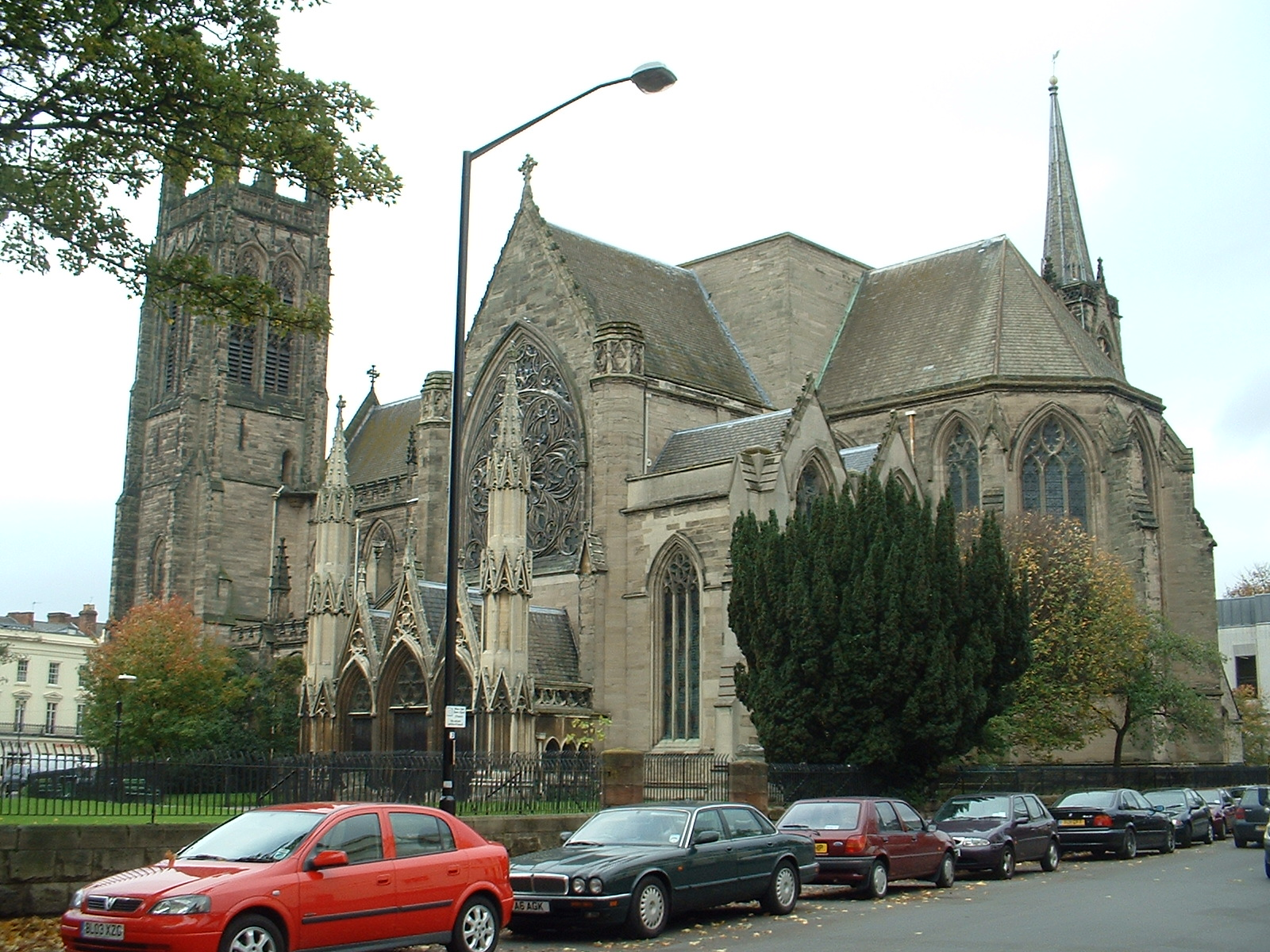 All Saints' parish church, Royal Leamington Spa, Warwickshire